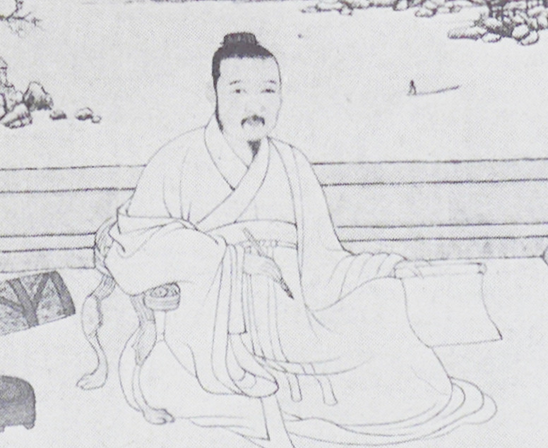 detail of Ni Zan Portrait, ink and color on paper, Yuan Dynasty, in National Palace Museum, Taipei